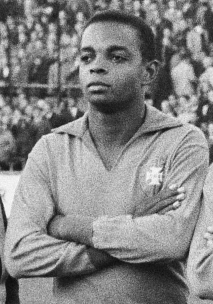 Lima.